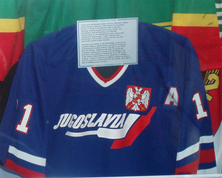 The plaque reads:Serbia and Montenegro jersey worn by alternate captain Csaba Prokec during the 2004 World Championship Division II Group B tournament held in Lithuania. Although wearing Yugoslavian jerseys, Serbia and Montenegro was participating in its first IIHF championship as an independent nation and would capture the silver medal. Prokec finished 3rd in tournament scoring with 18 points and won the IIHF Directorate Award as Best Forward.